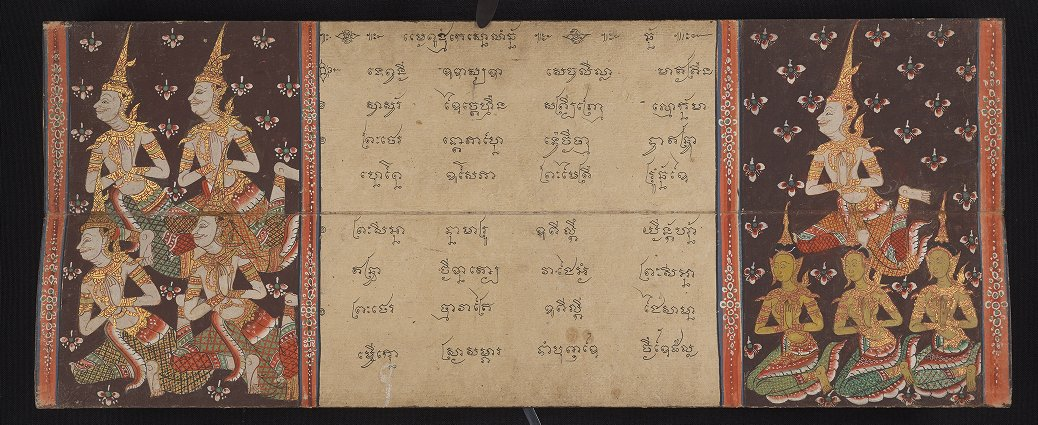 Deva and three devis in reverence, with gold leaf